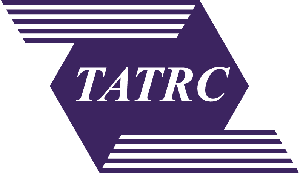 Logo for the United States Army Telemedicine and Advanced Technology Research Center (TATRC). TATRC is a subordinate command of the United States Army Medical Research and Materiel Command (USAMRMC) based at Fort Detrick, Maryland.